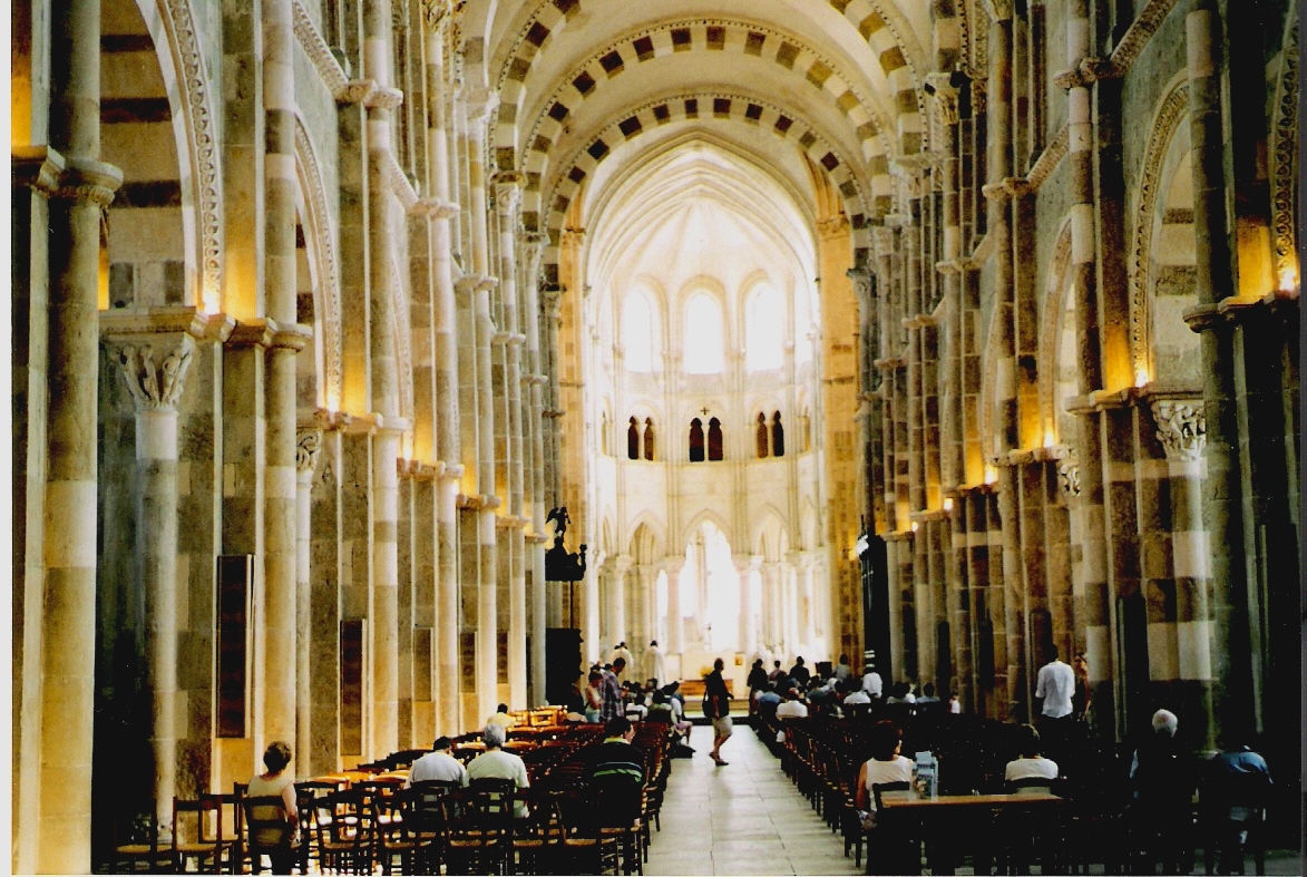 Nave of the basilica Ste Madeleine in Vézelay, Burgundy, France.